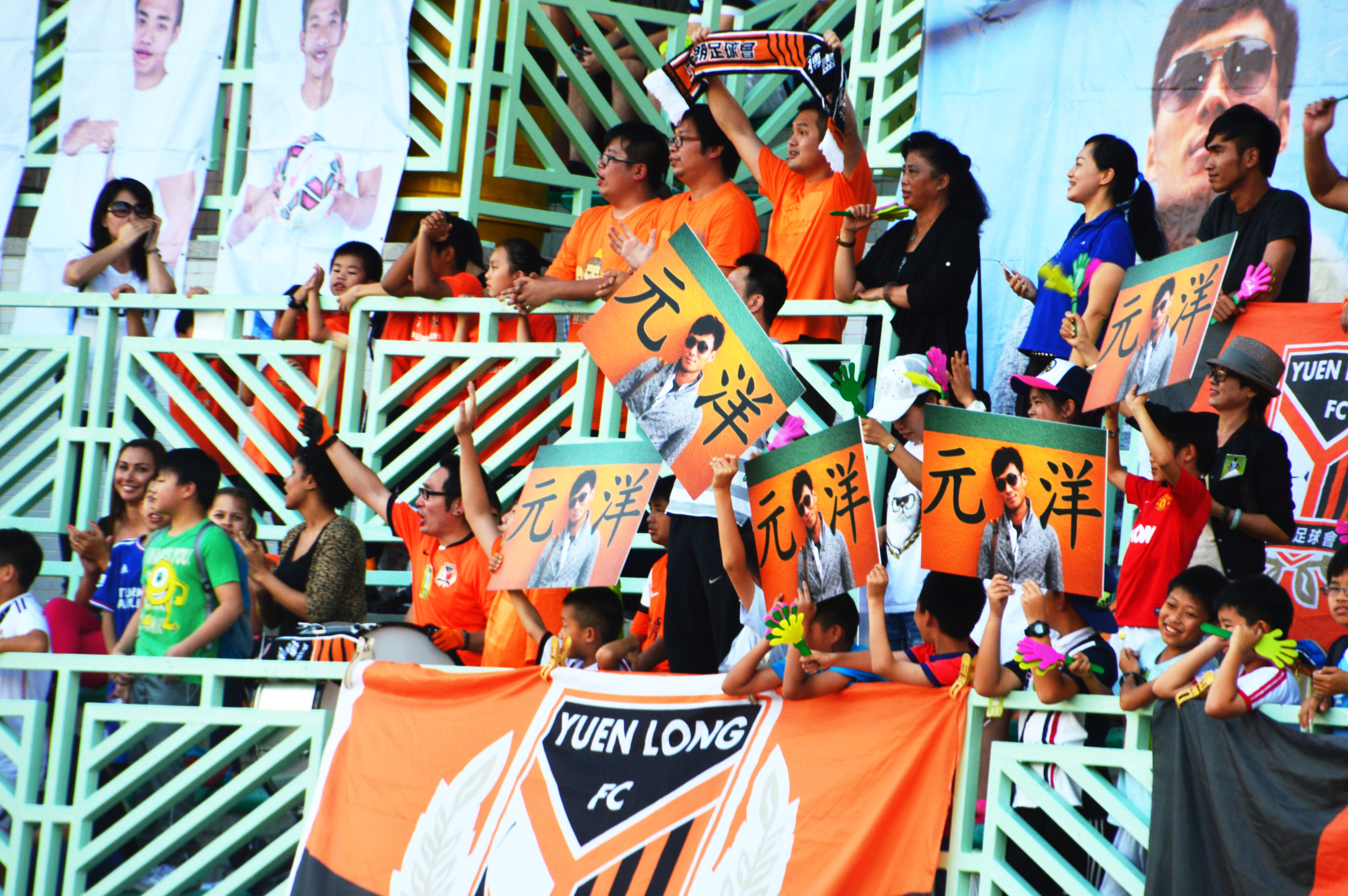 Yuan Yang's Fans at Yuen Long Stadium